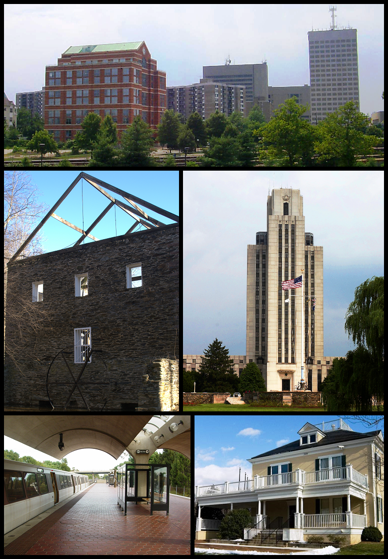 A photographic montage of Montgomery County, Maryland, designed for use in Wikipedia infoboxes and the like.